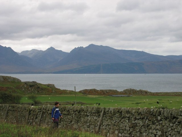 Path to St Blane's Kirk on Bute and SW to Arran. View from Bute across to the 'Sleeping Warrior' on the sky-line of Arran. The head in profile is just left of centre, to the right (under a blanket) are the hands clasped on the chest with the rest of the body sloping down from there. Can you see it yet?